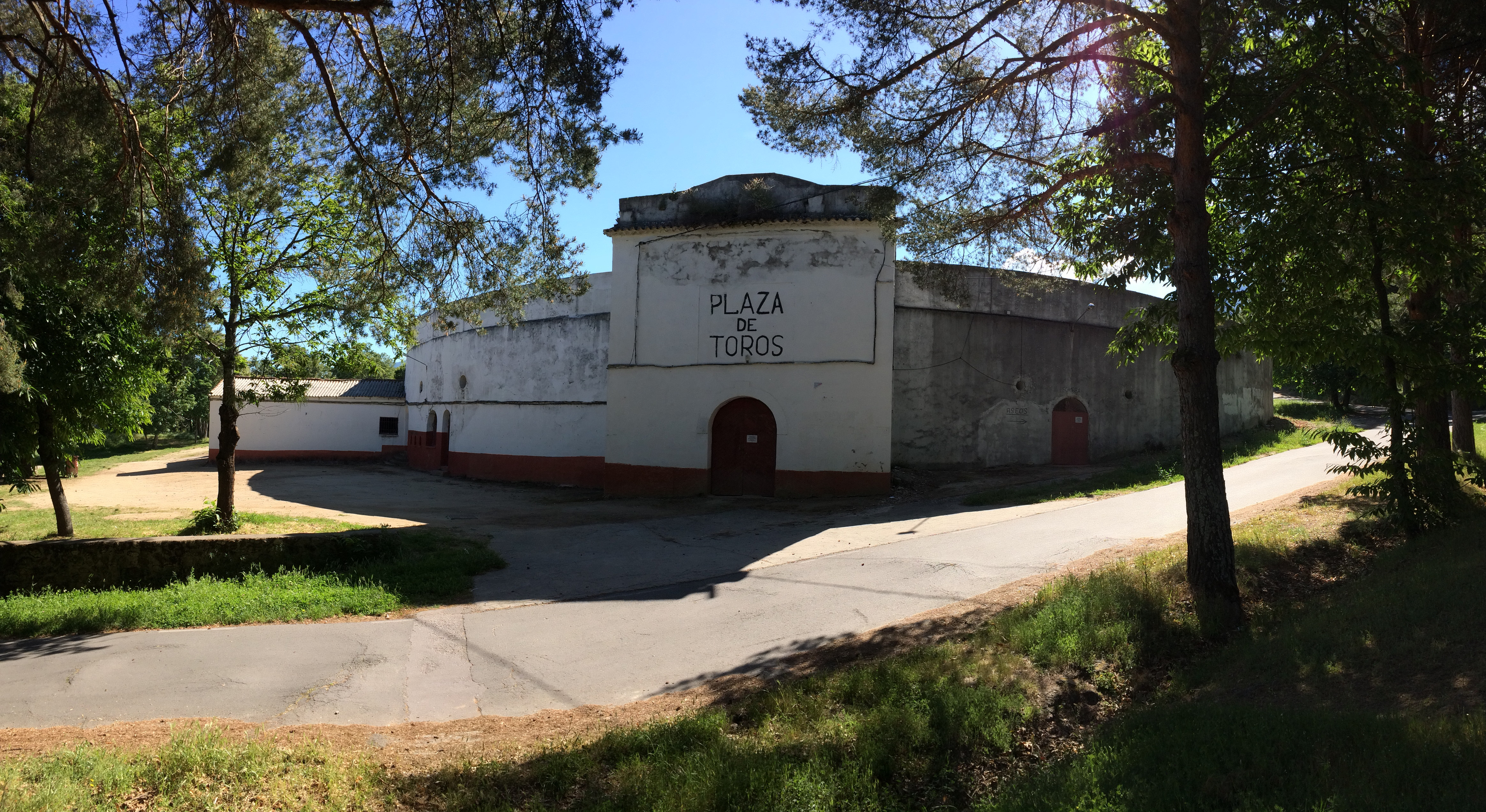 Bullring of Hervás (Cáceres) of third category, main facade and access.